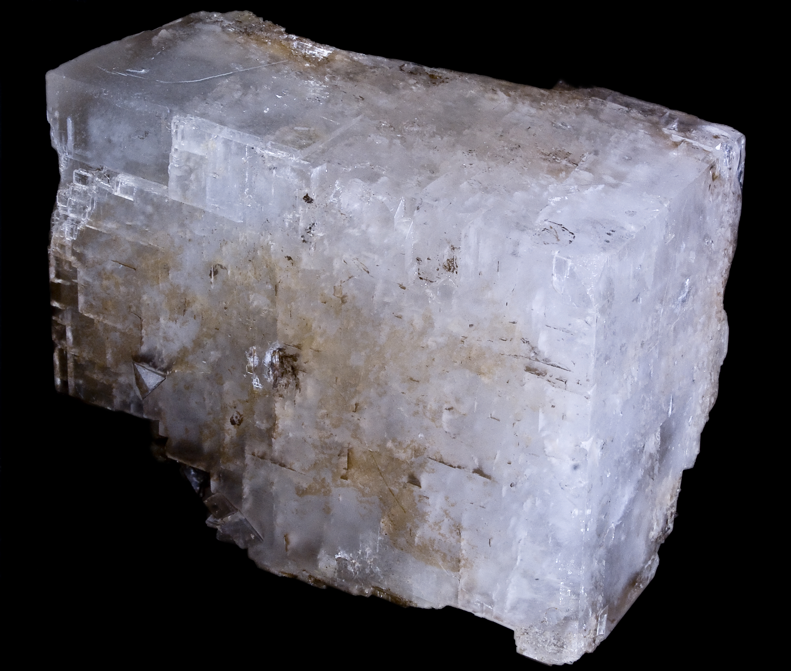 Magnesite - Monocristal Size : 9.7x7.1x6 cm Locality : Serra das Éguas, Brumado (Bom Jesus dos Meiras), Bahia, Northeast Region, Brazil